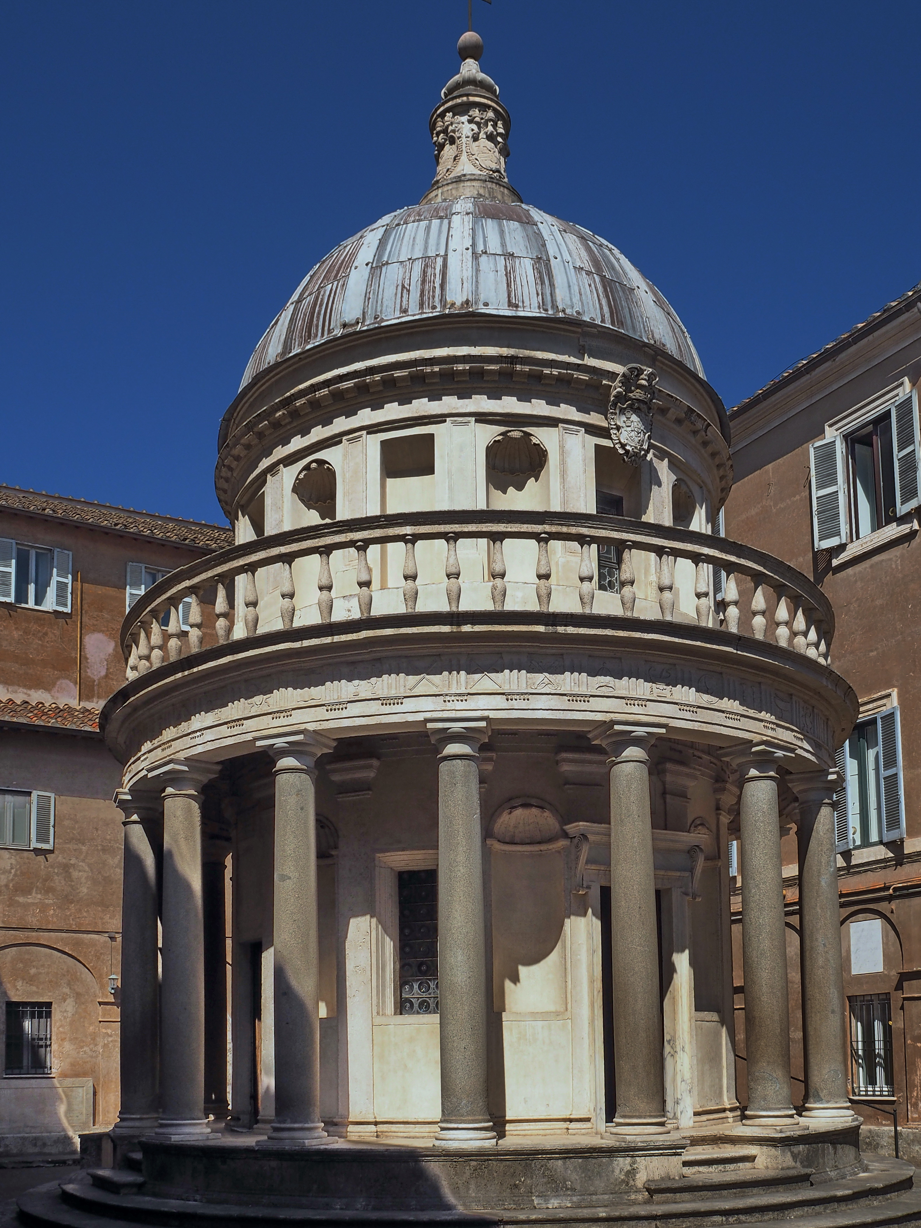 San Pietro in Montorio (Rome); Tempietto del Bramante